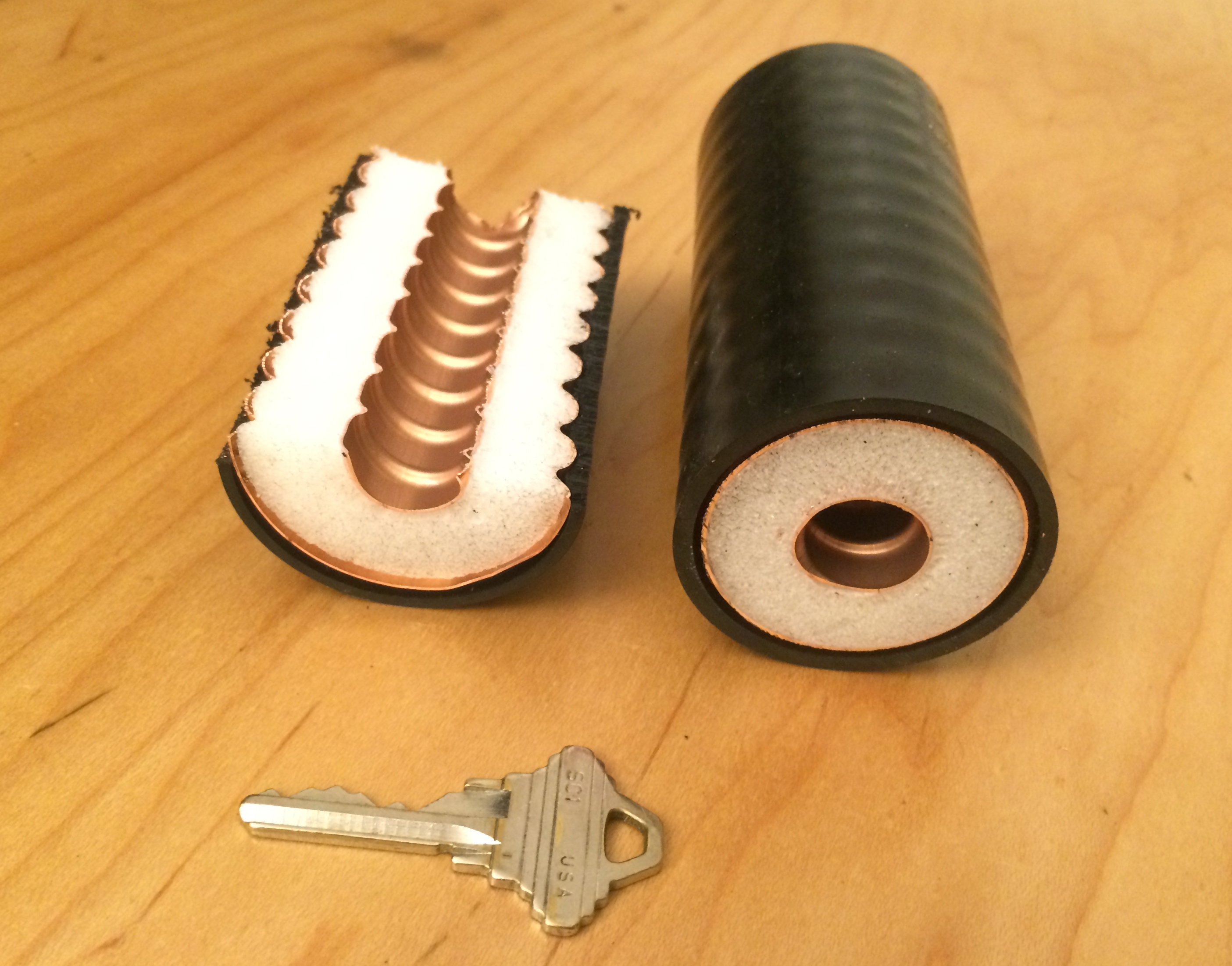 CDMA Cell antenna. This was removed from a Metro PCS cell site in Torrance California, USA